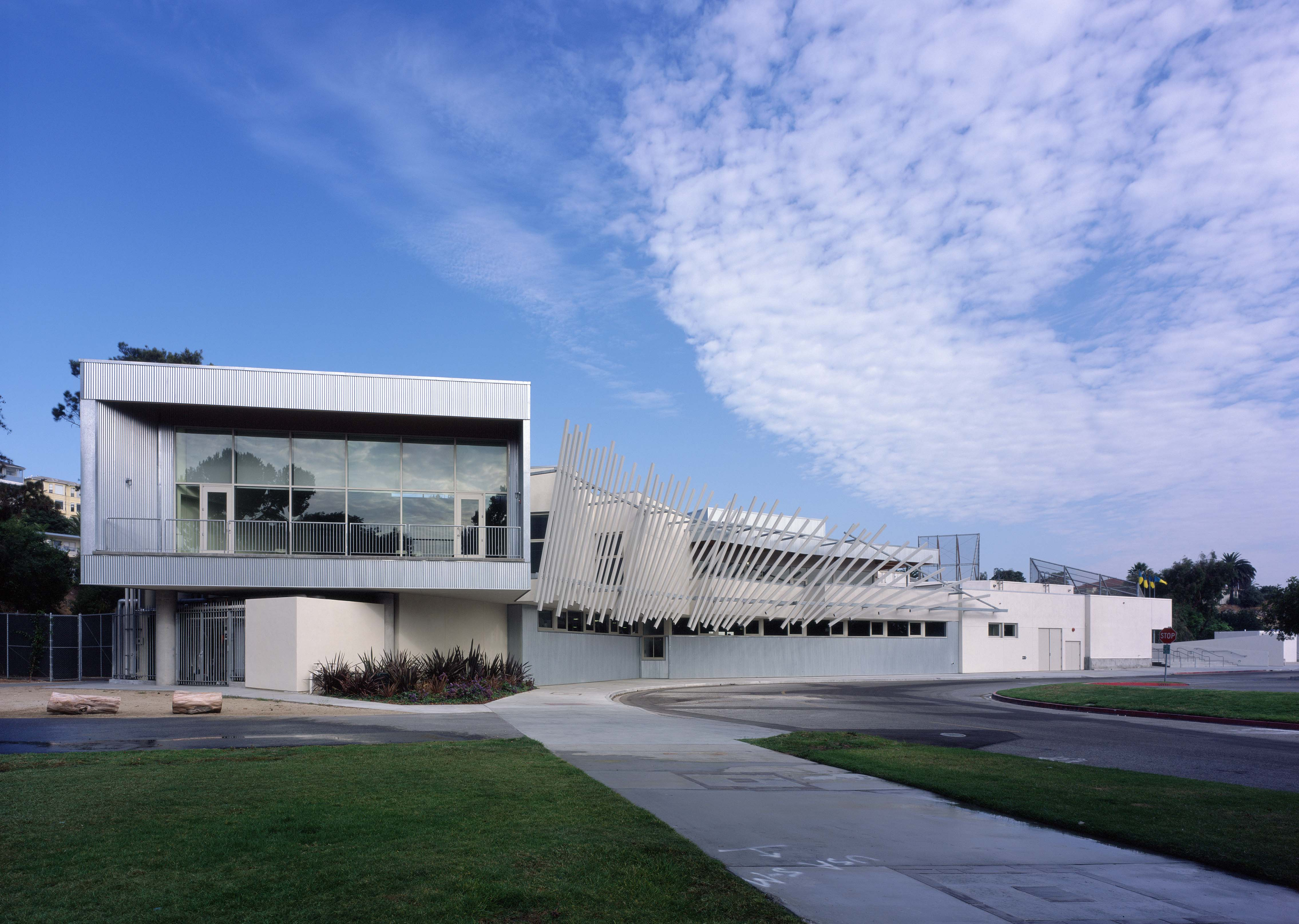 CMA, East Elevation